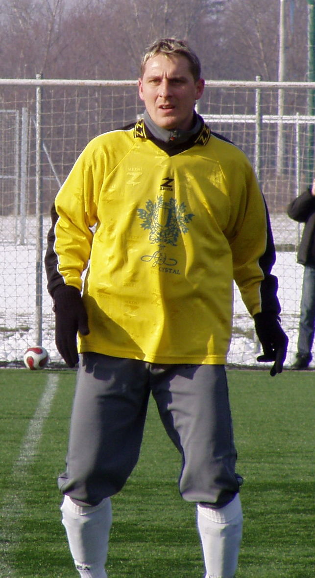 András Kaj Hungarian association football player.